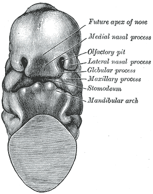 Head end of human embryo of about thirty to thirty-one days. (From model by Peters.)